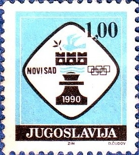 Chess Olympiads 1990